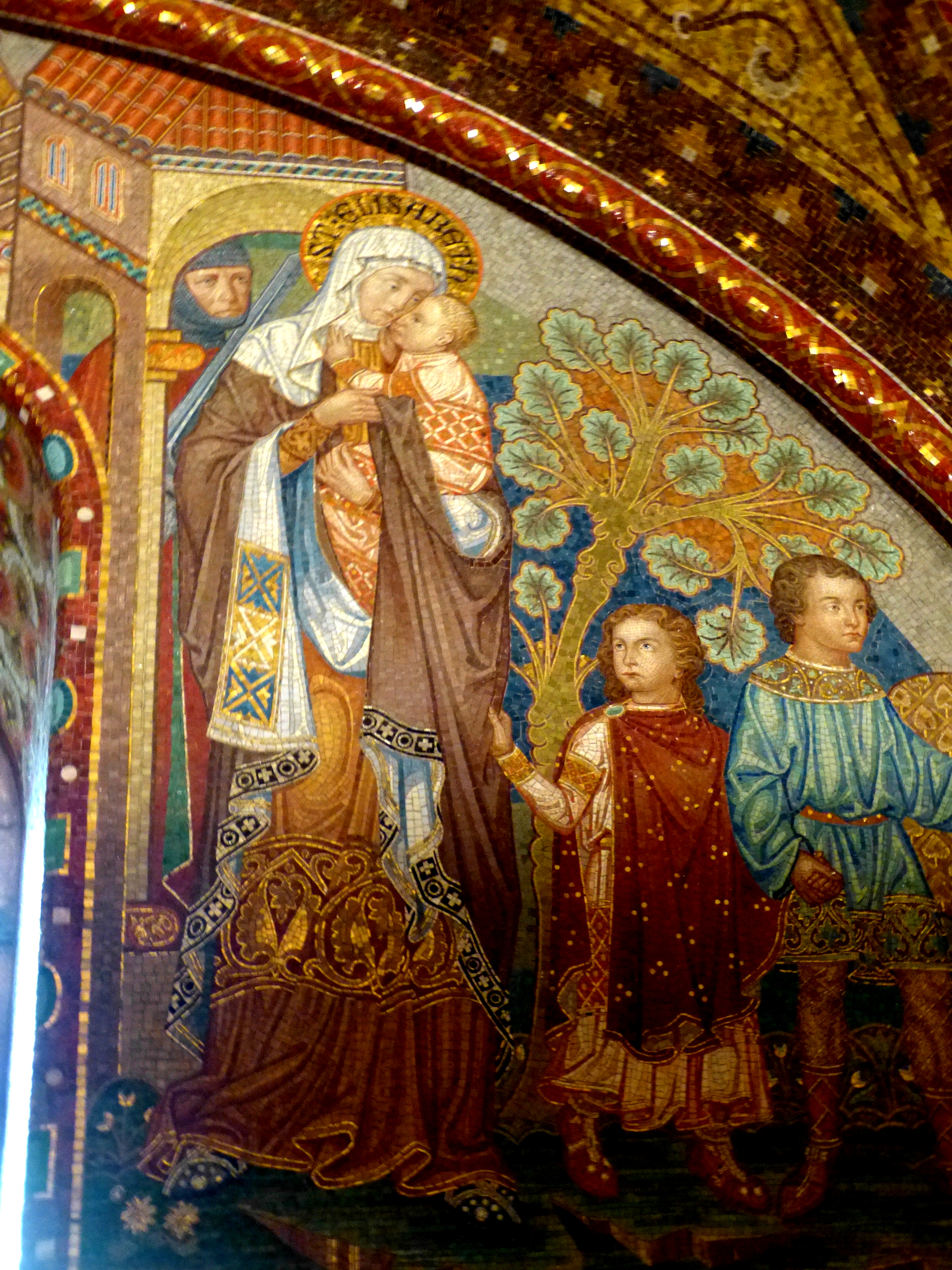 Wartburg ( Eisenach/Thuringia ). Chamber of Elisabeth of Hungary - Life of Elisabeth of Hungary on mosaics ( 1902-1906 ): Elisabeth with her children is forced to leave Wartburg castle.